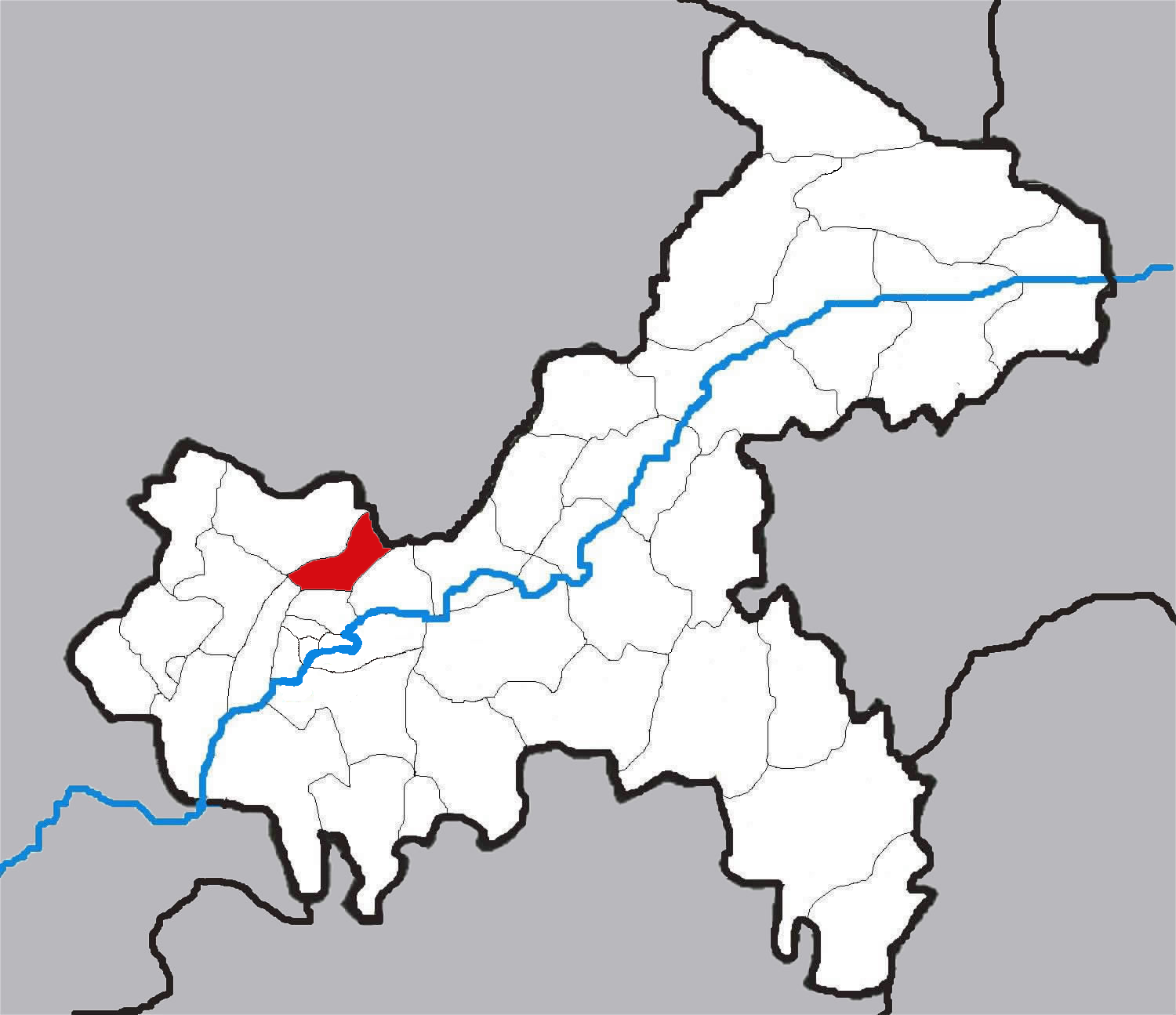 Administration maps of Chongqing, China